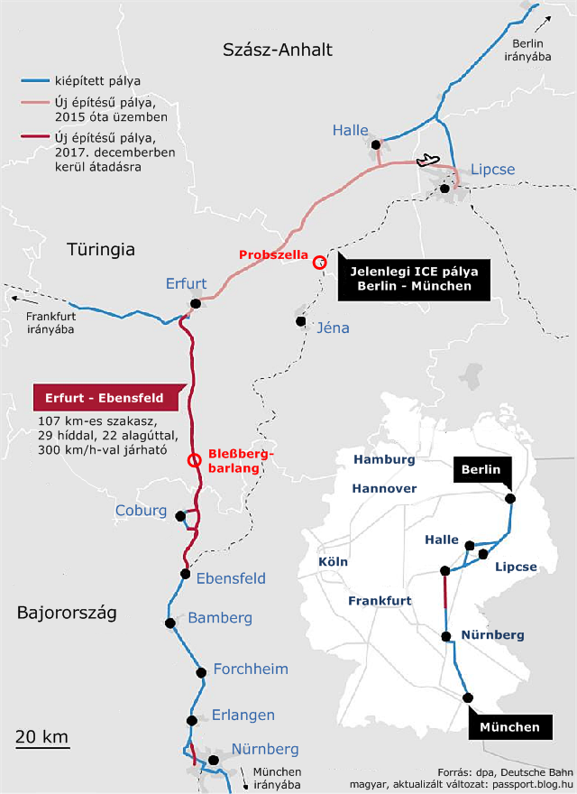 VDE8.1